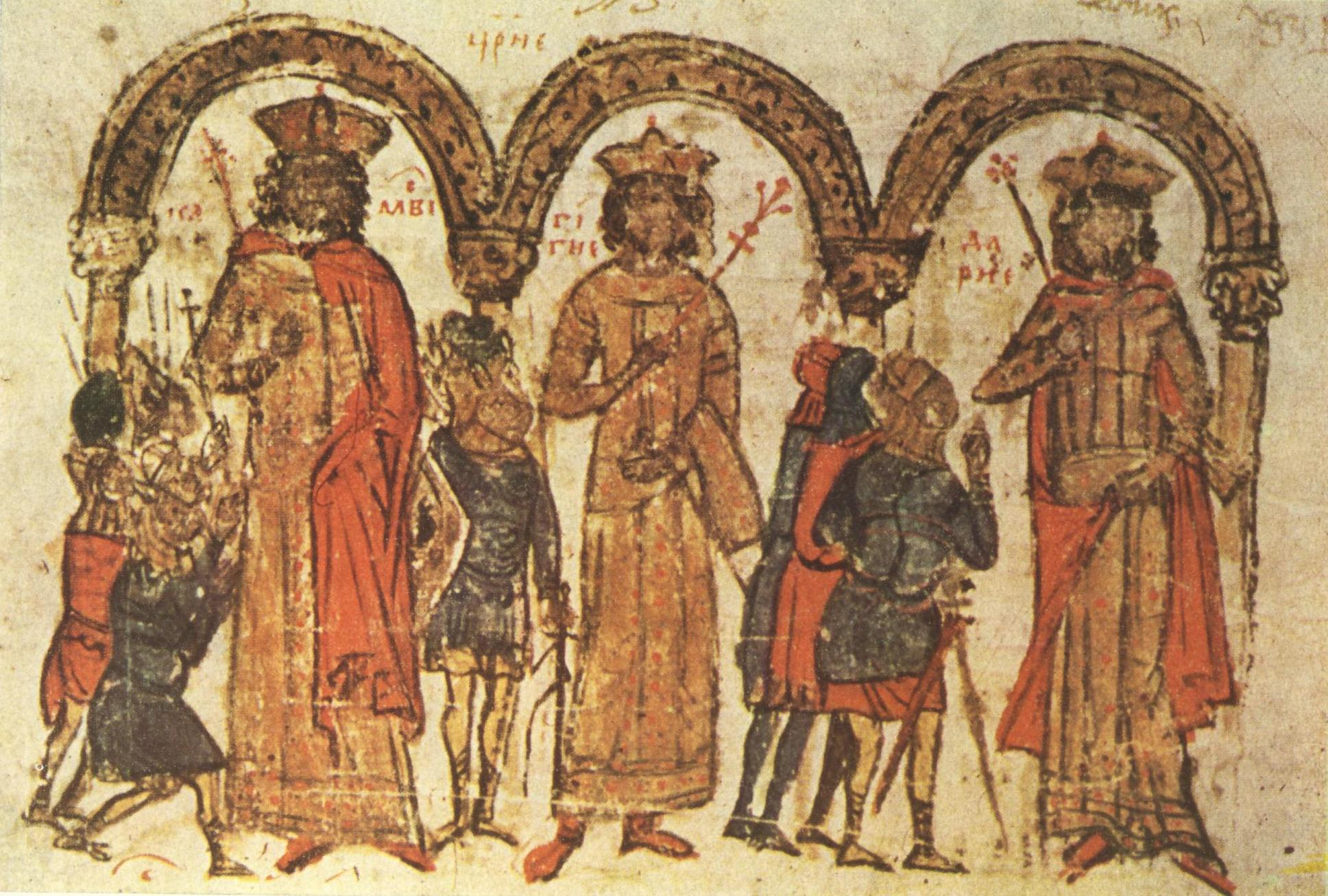 Miniature 12 from the Constantine Manasses Chronicle, 14 century: Kings Cambyses, Gyges and Darius